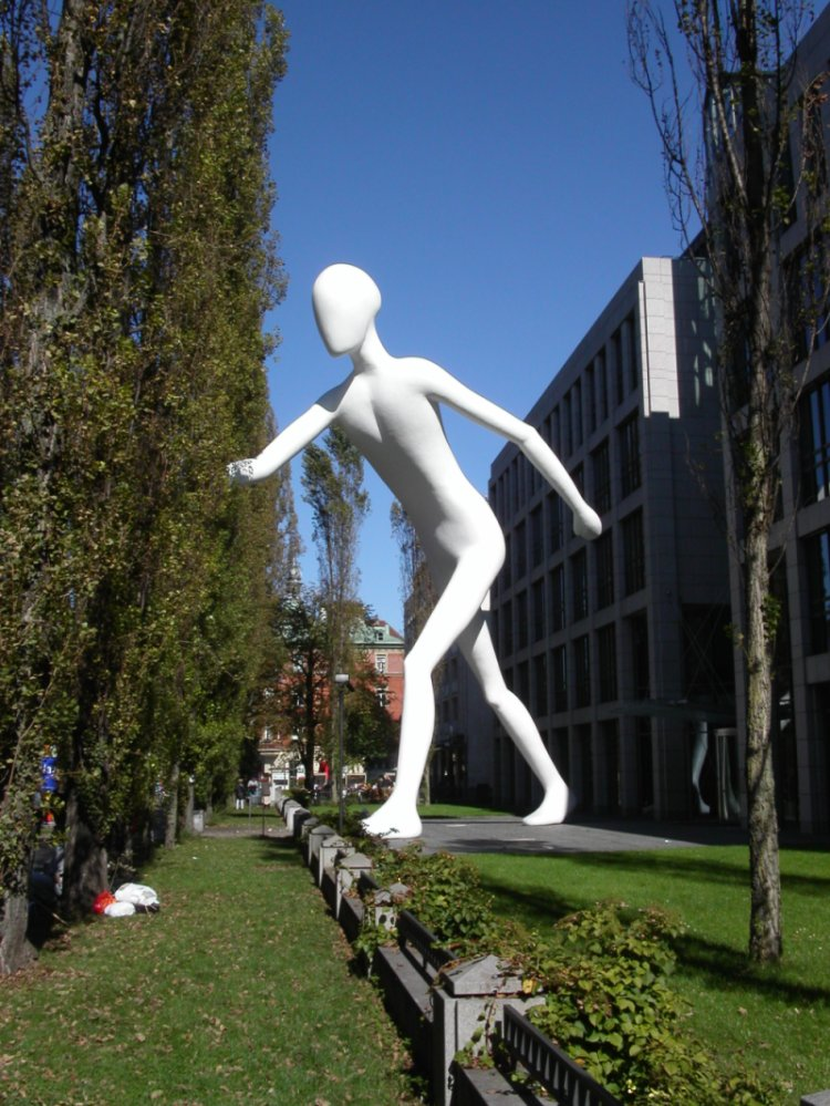 Walking man in Munich-Schwabing